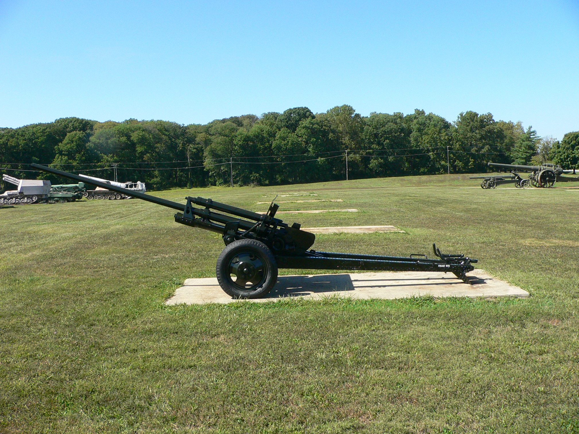 Picture taken by myself, Mark Pellegrini, at the United States Army Ordnance Museum (Aberdeen Proving Ground, MD)